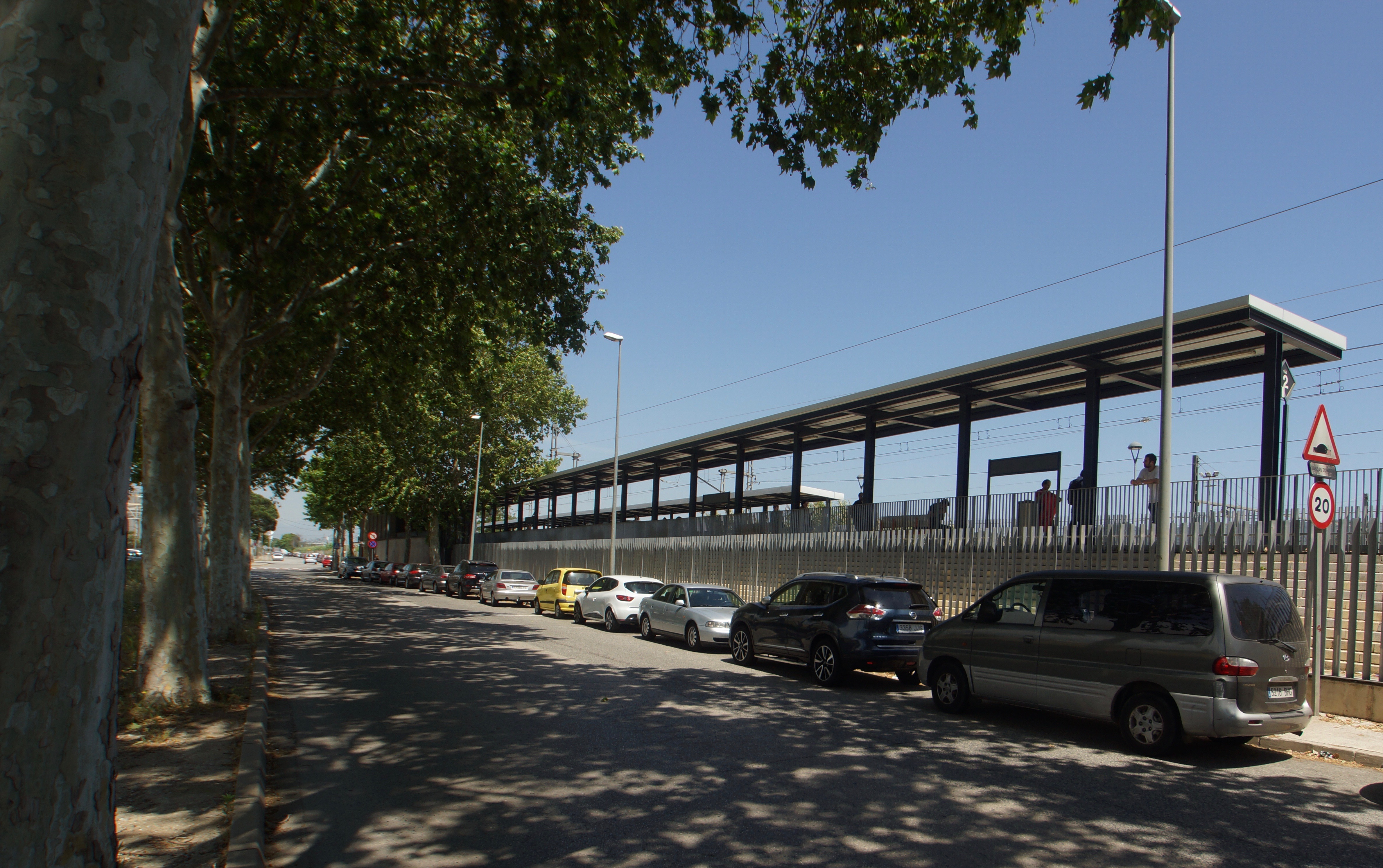 La Llagosta, Catalonia: Railway Station, platform